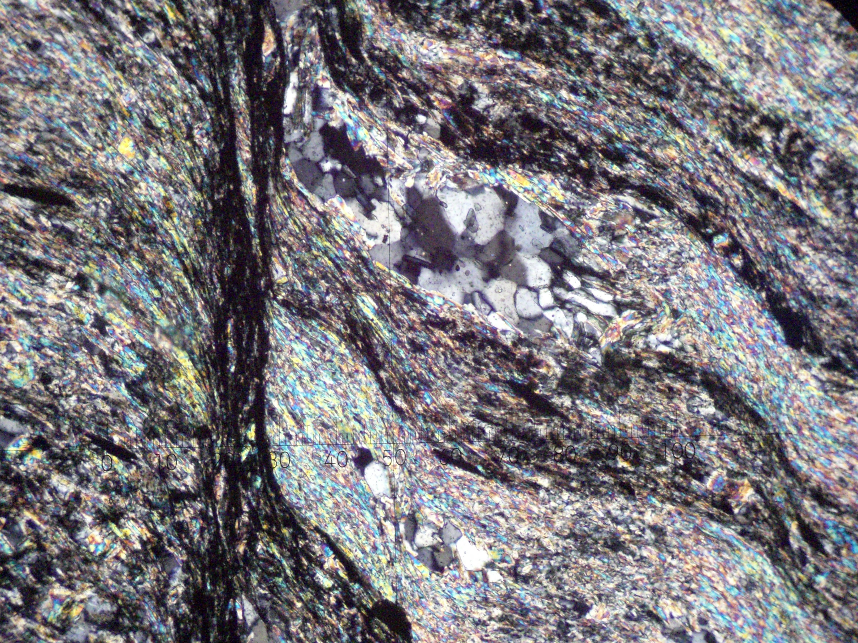 Metamorphic rock Phyllite in microscope. Two nicols. Zoom 100 times. 100 parts on scale is 1 cm.